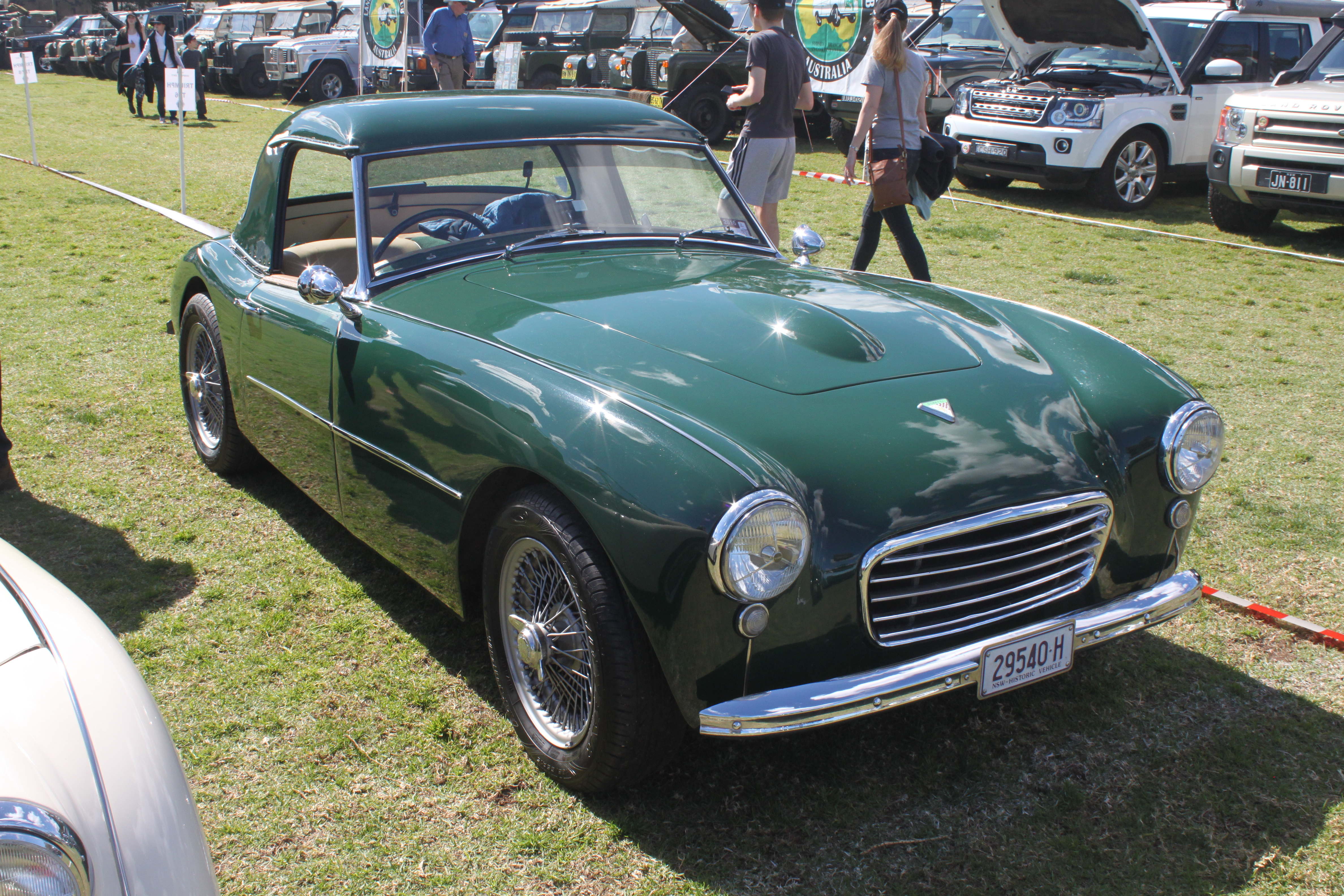 All British Day, Kings School, North Parramatta, NSW August 2015